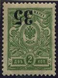 Siberia 1919, mint inverted 35 kopek overprint. Admiral Kolchak issue.